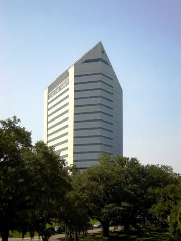 Turlington Education Building as seen from Tallahassee Civic Center